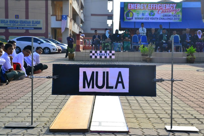 Cekap tenaga 7